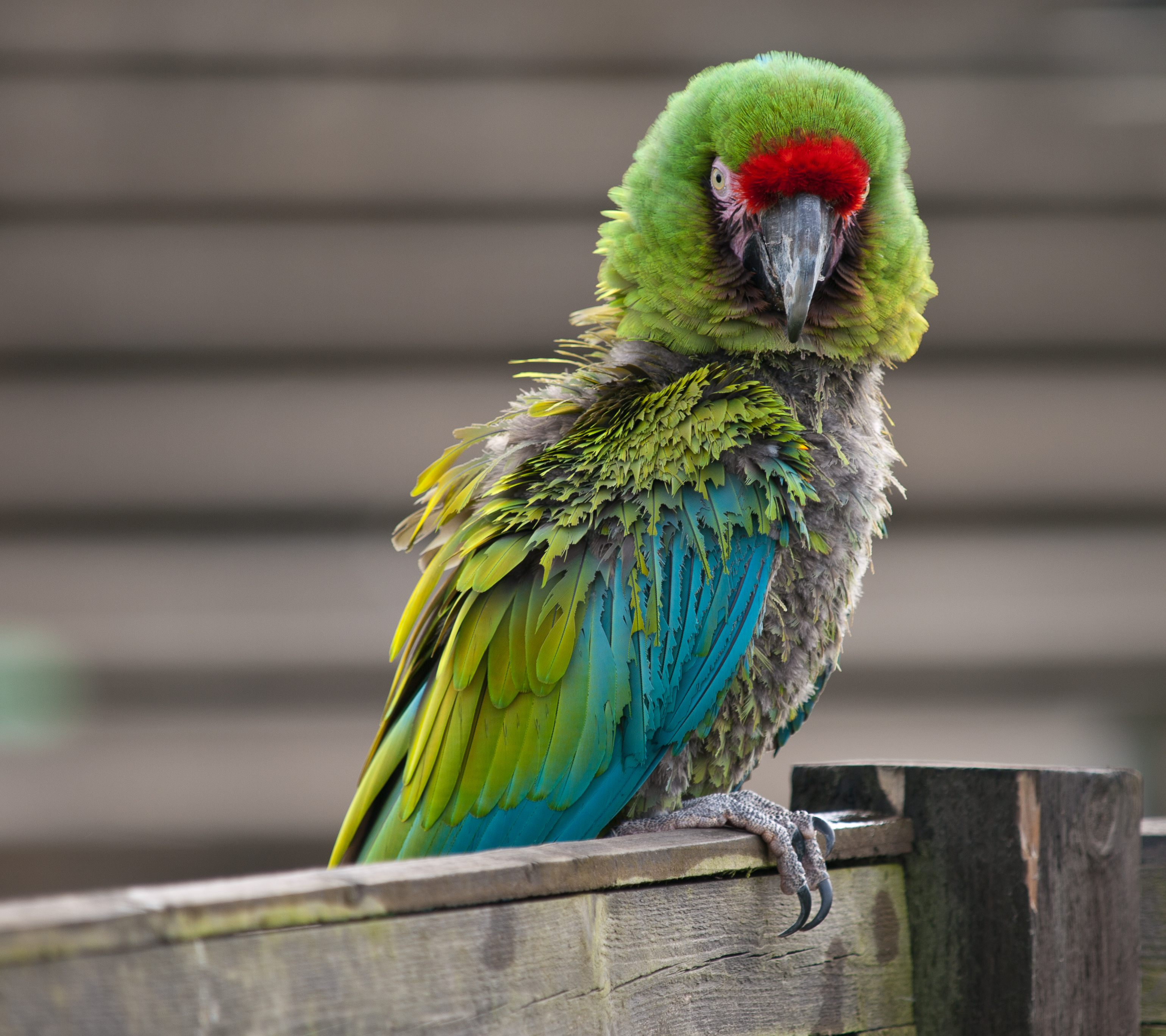 A Military Macaw at Whipsnade Zoo, Bedfordshire, England. Some of its feathers are damaged probably due to feather plucking.